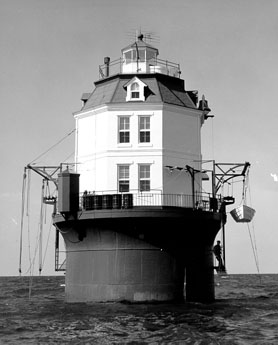 Undated photo of Point No Point Light, MD, from USCG site